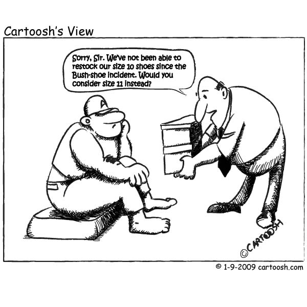 Baghdad, Iraq - On his farewell trip to Iraq, President George W. Bush hailed progress in the war that defines his presidency and got a size-10 reminder of his unpopularity, when a man hurled two shoes at him during a news conference. Apparently, not everyone agreed with him.